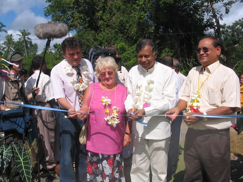 Expanding AGSEP mission in Sri Lanka: opening a new school for children by Ms. Herrn Doering, social activist and mother of the AGSEP's founder and Dr. Jayalath Jayawardena, Member of Parliament and a former minister for rehabilitation, resettlement and refugees on 28th October, 2005